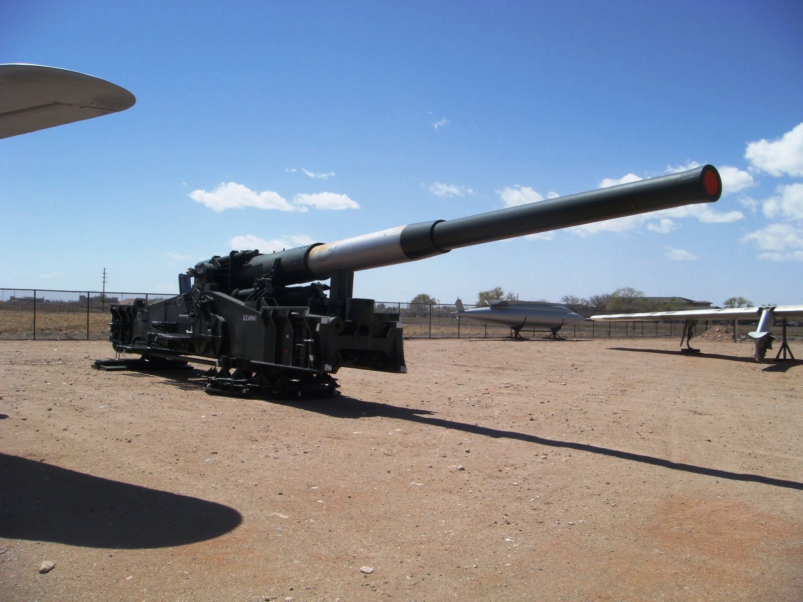 280MM Atomic Cannon at the National Museum of Nuclear Science & History.